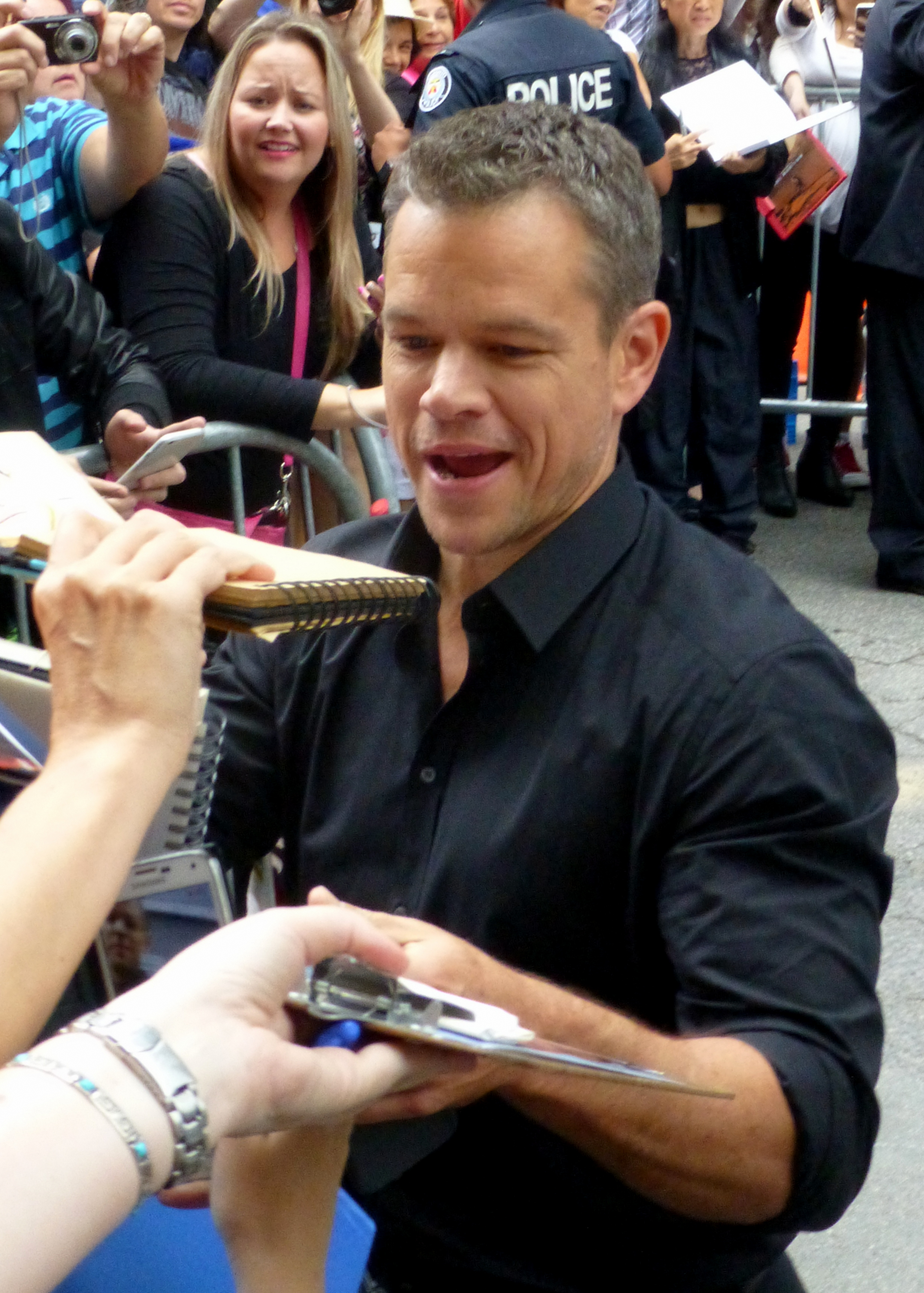 Matt Damon at press conference for the Martian, 2015 Toronto Film Festival